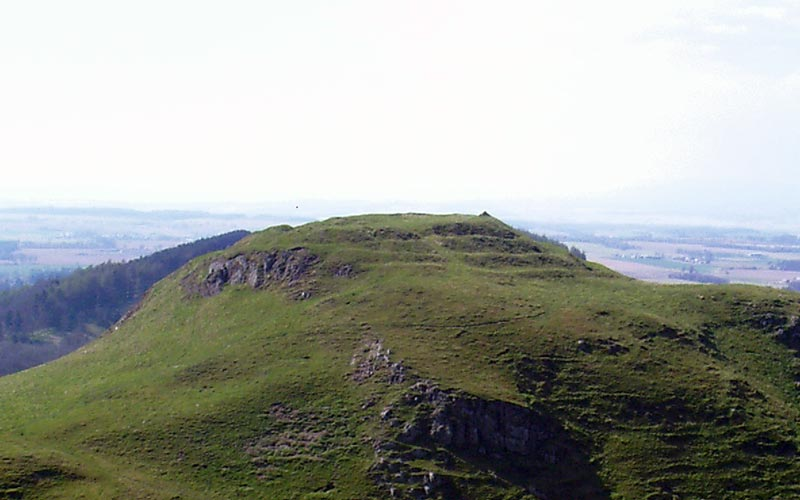 This photograph taken by Joe Dorward on 12APR06 shows Dunsinane Hill from Black Hill